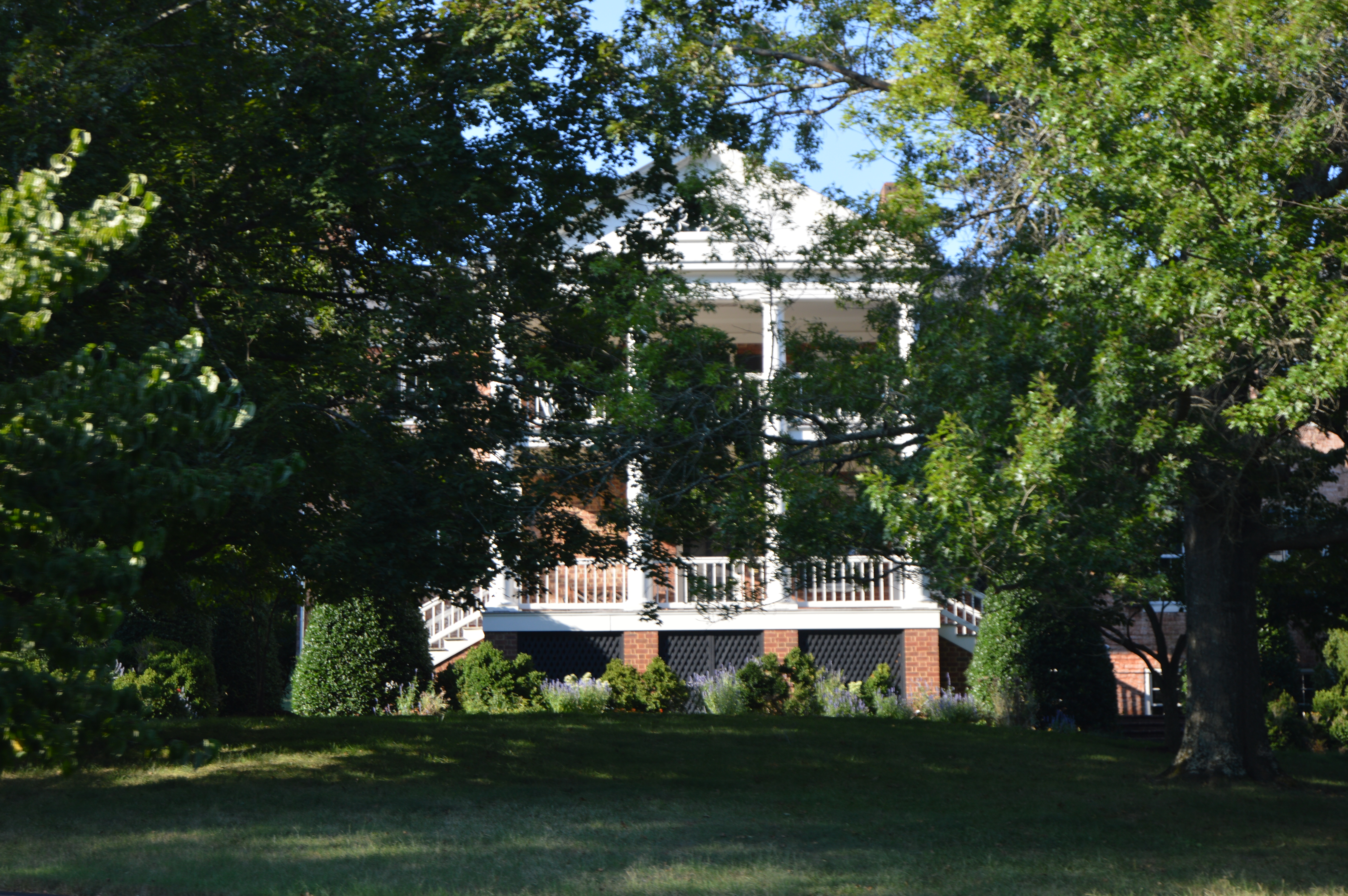 Front of Clifton, located on Old Buena Vista Road east of U.S. Route 11, northeast of Lexington, in rural Rockbridge County, Virginia, United States. Built in 1815, it is listed on the National Register of Historic Places.